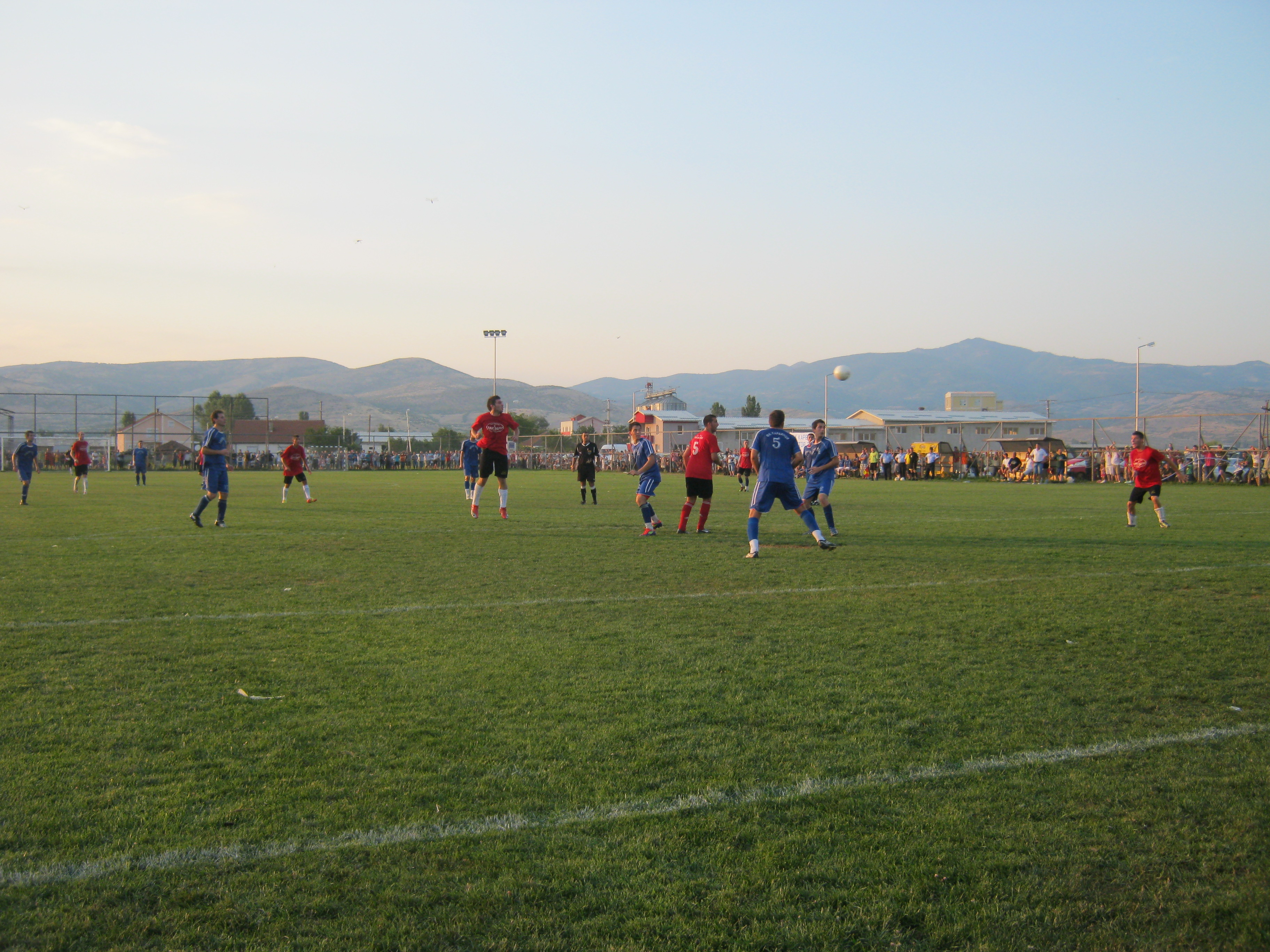 Илинденски спортски игри